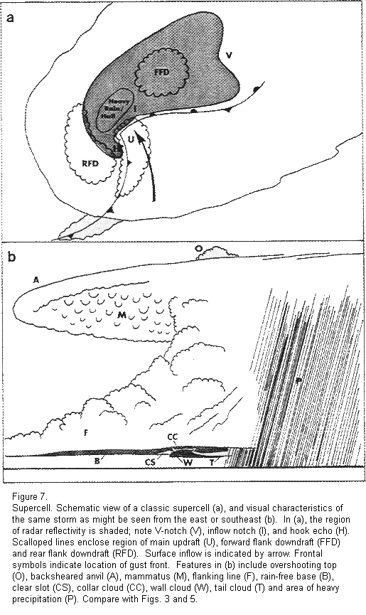 An idealized schematic of a classic supercell thunderstorm.